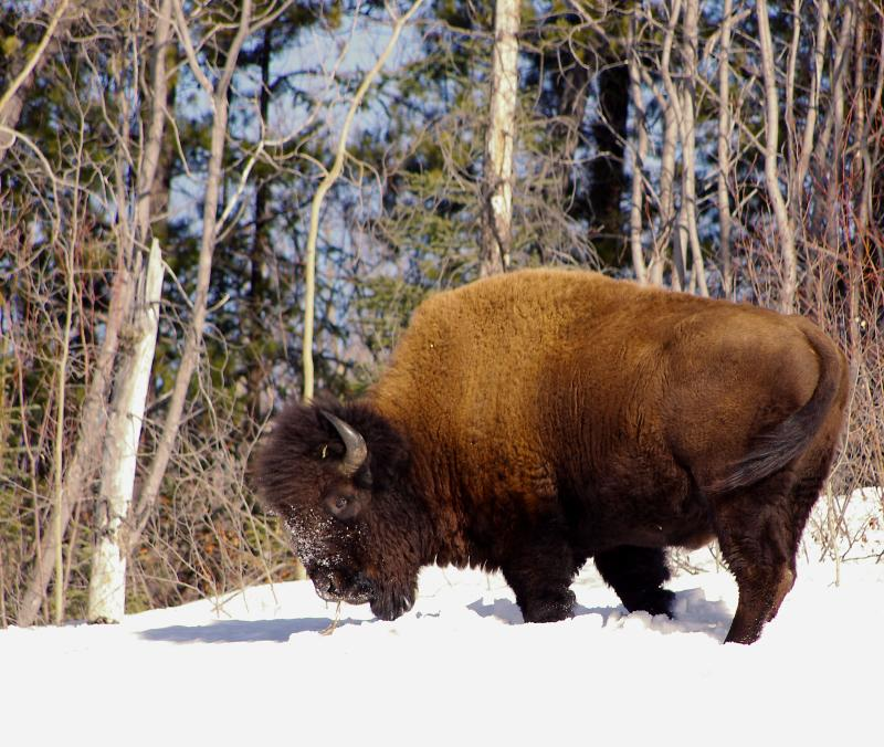 Individuals can be spotted along the Alaska Highway east of Watson Lake, pushing aside the snow to get to the grass below - usually on the sunny side of the highway.